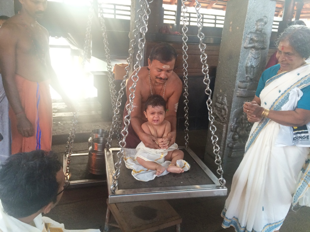 The balance (Thulabharam)